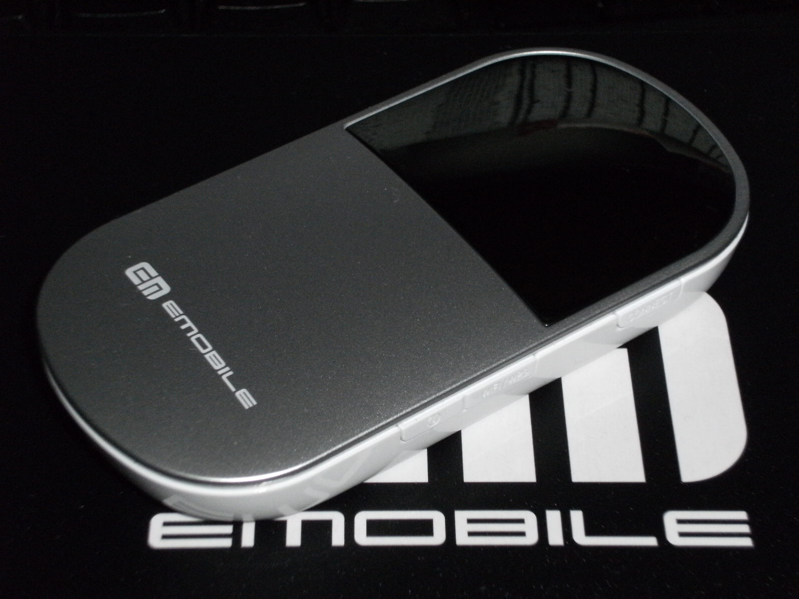 Huawei Technologies D25HW 3G-WiFi Router / USB modem